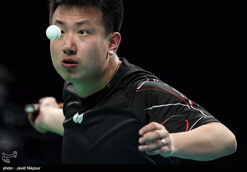 Table tennis at the 2016 Summer Olympics